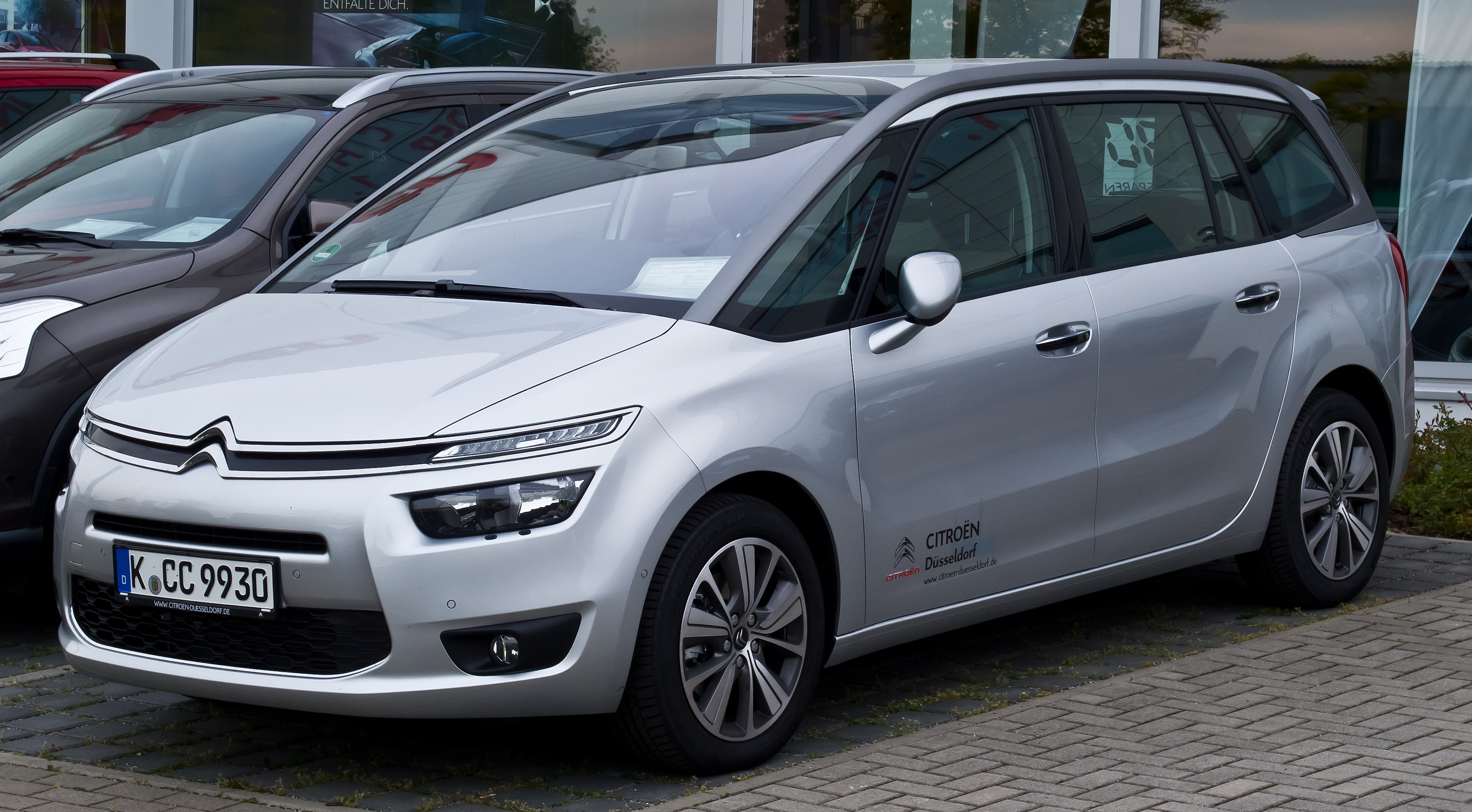 Citroën Grand C4 Picasso BlueHDi 150 Intensive (II)